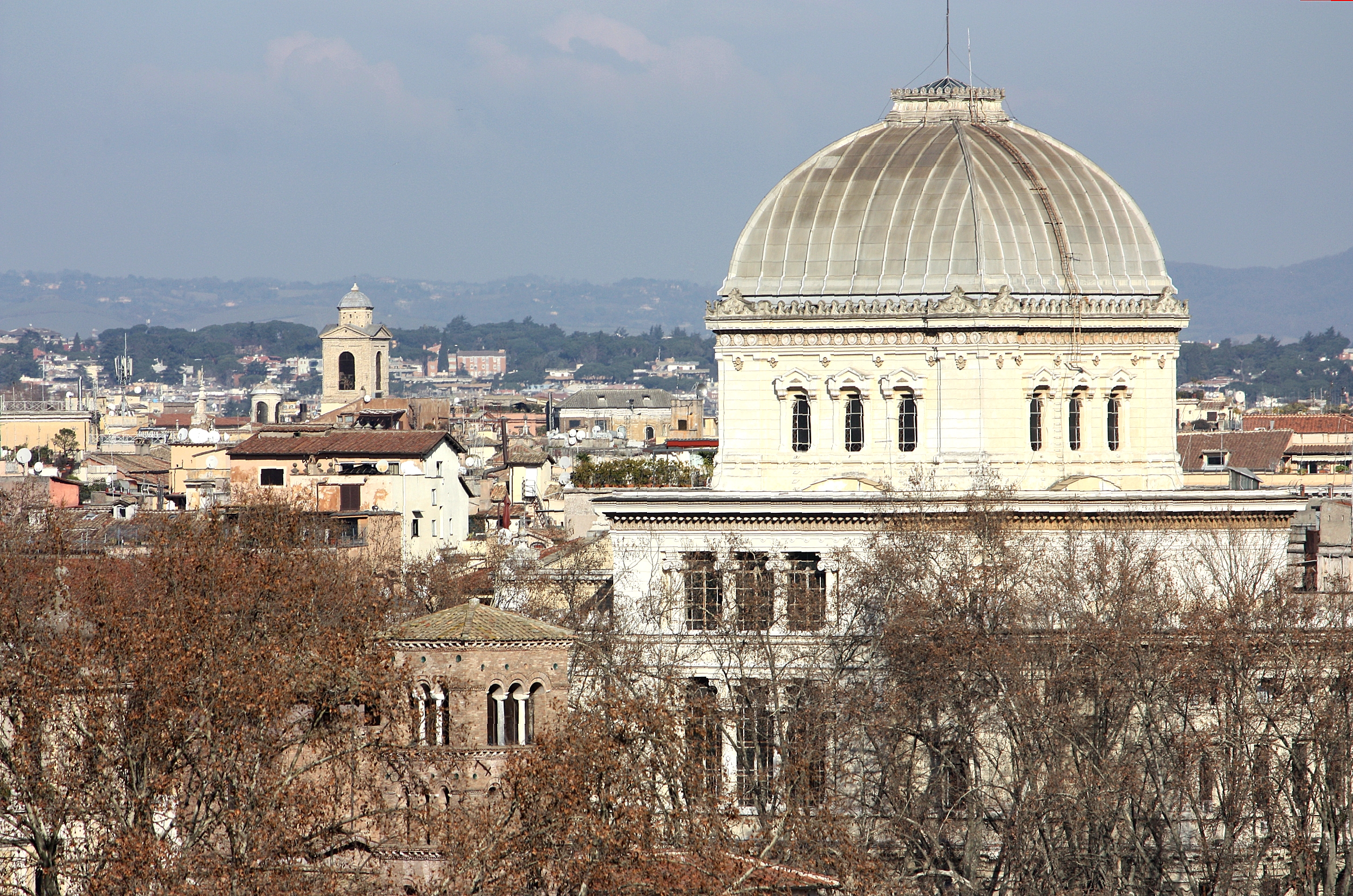 Rome, view from the Giardino degli Aranci to the Great Synagogue